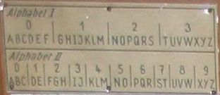 Alphabet plate of Enigma Uhr box